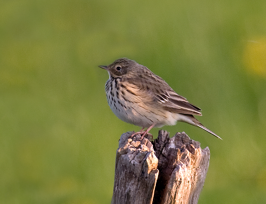 Meadow Pipit